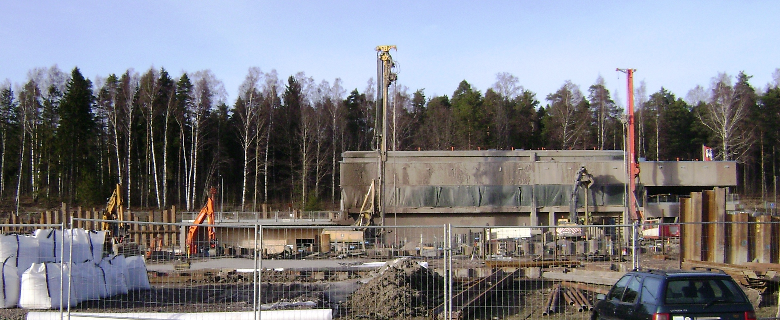 Leppävaara swimming hall being renovated in March 2014.